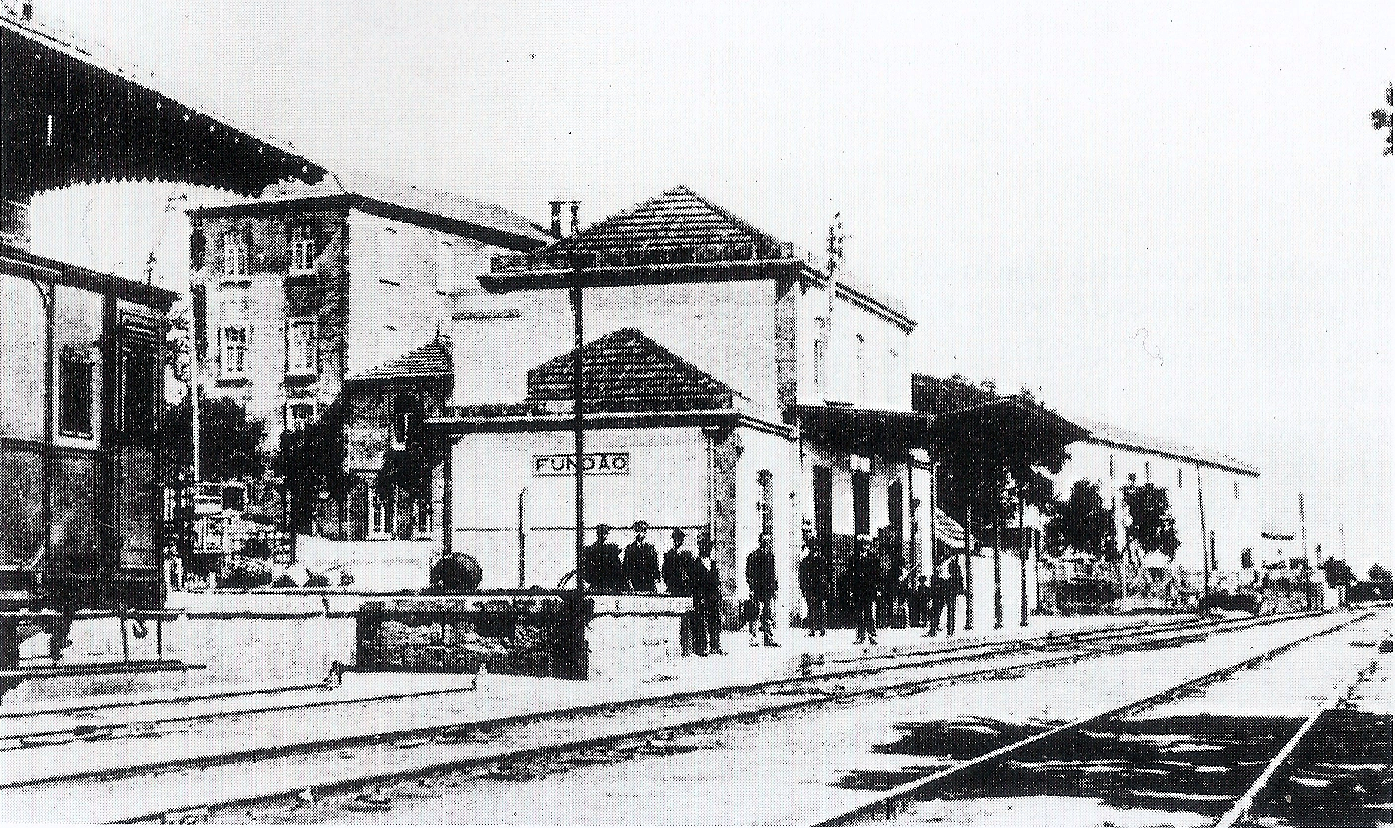 Old photograph of the Fundão Train Station, in the Beira Baixa Railway (Linha da Beira Baixa), in Portugal.